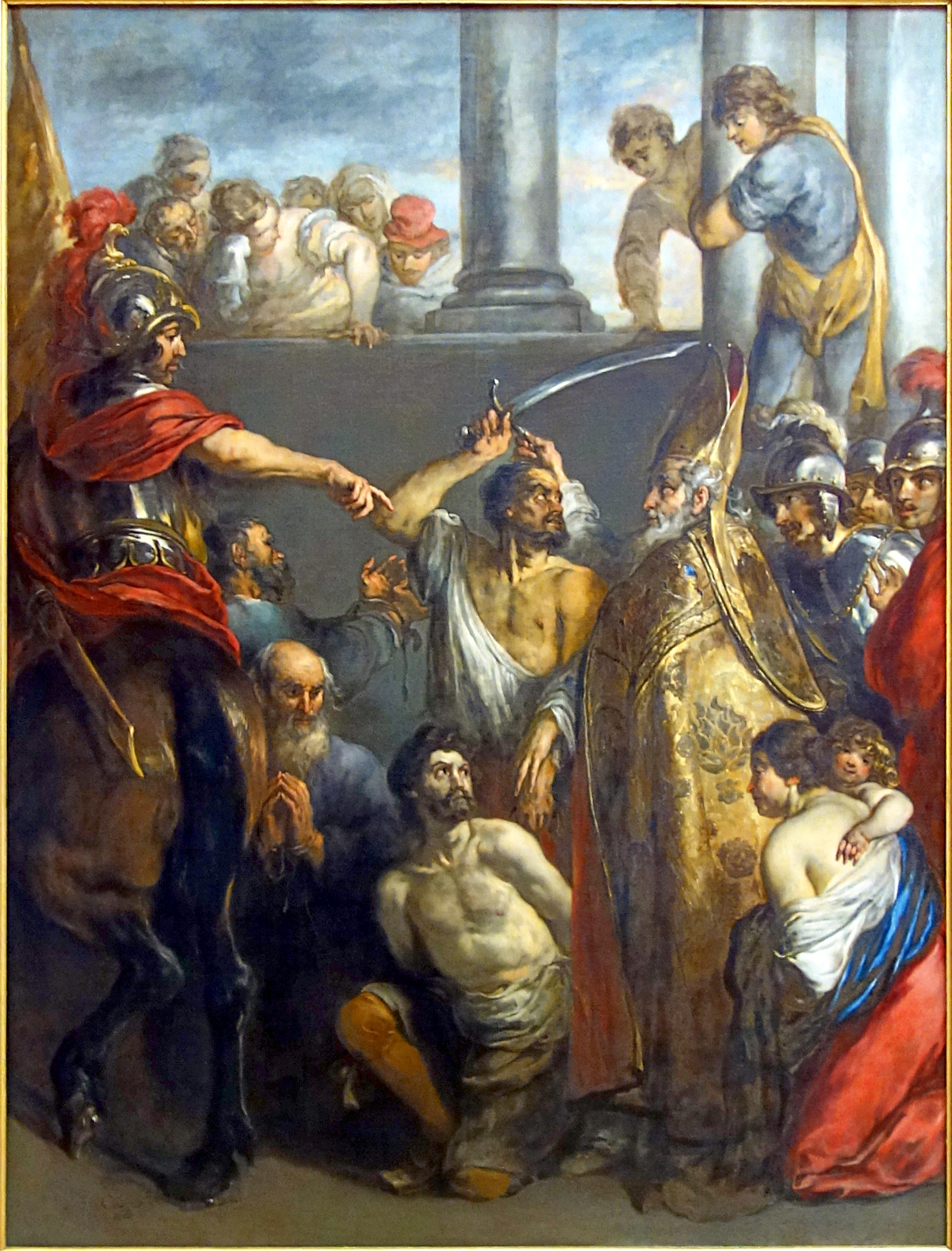 Saint Nicholas stopping the executionerlabel QS:Len,"Saint Nicholas stopping the executioner"label QS:Lfr,"Saint Nicolas sauvant les captifs"